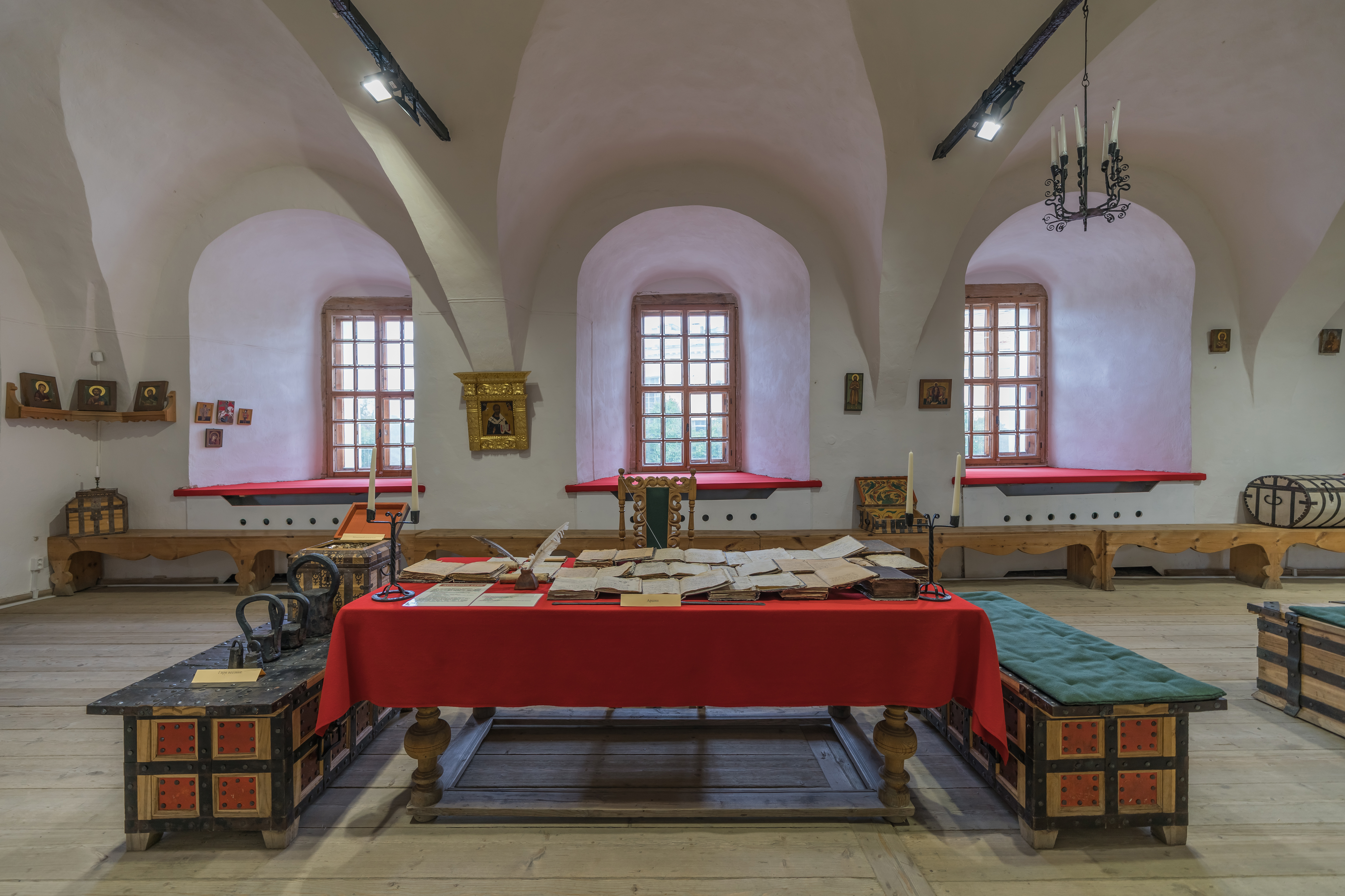 Interior (restored) of the Prikaz House at the Kremlin in Pskov, Russia